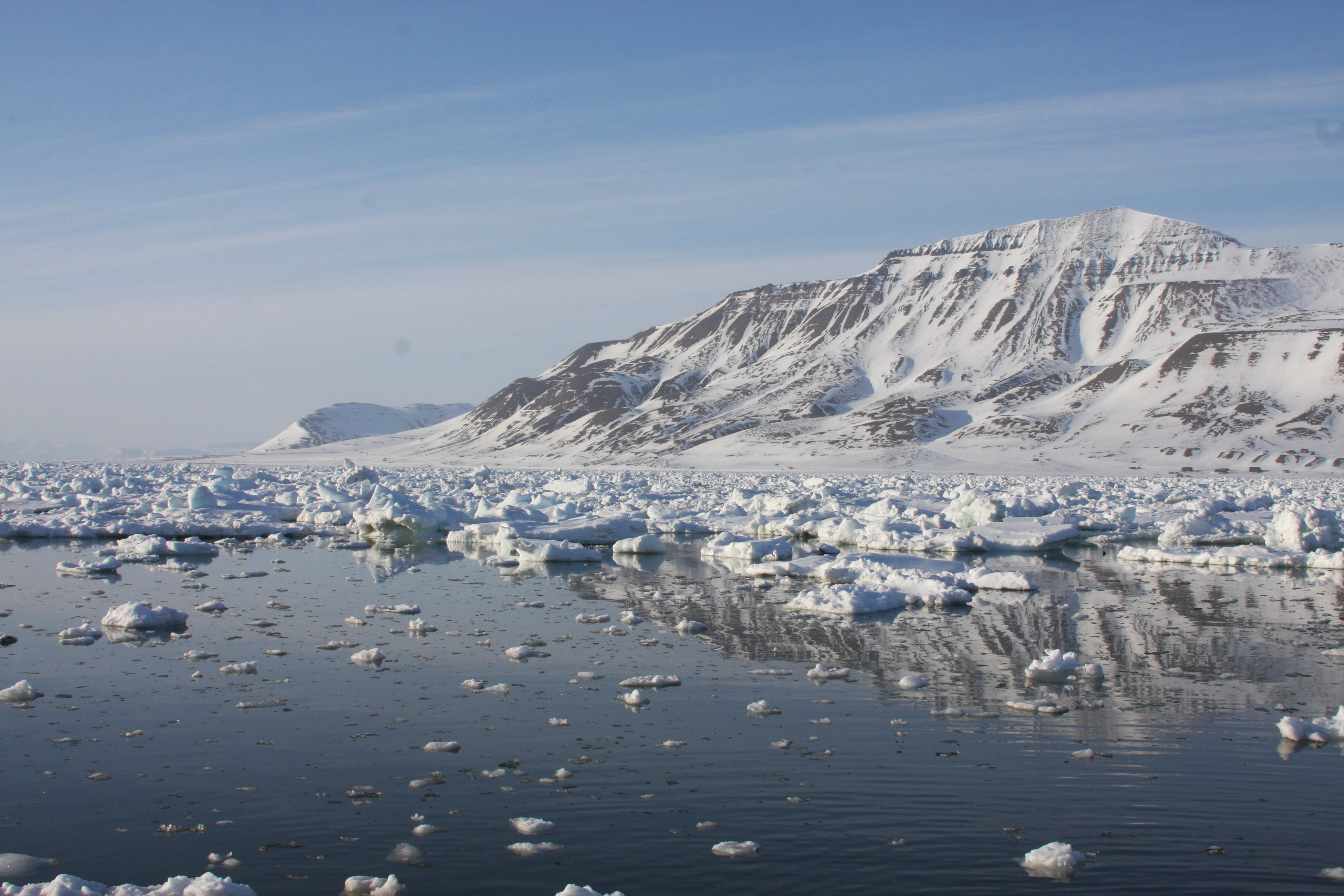 Isfjorden (Ice Fjord) at Longyearbyen, Svalbard. This is the Adventfjorden (Advent Bay) arm of the fjord, with Adventtoppen (Mt Advent) in the background. The Bay is partly ice-packed. Late april, 2011.